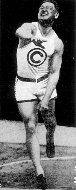 Avery Brundage, competing in the 1916 All-Around championships in Newark. Another article, behind a pay wall, dating the event as pre-1923 is here.